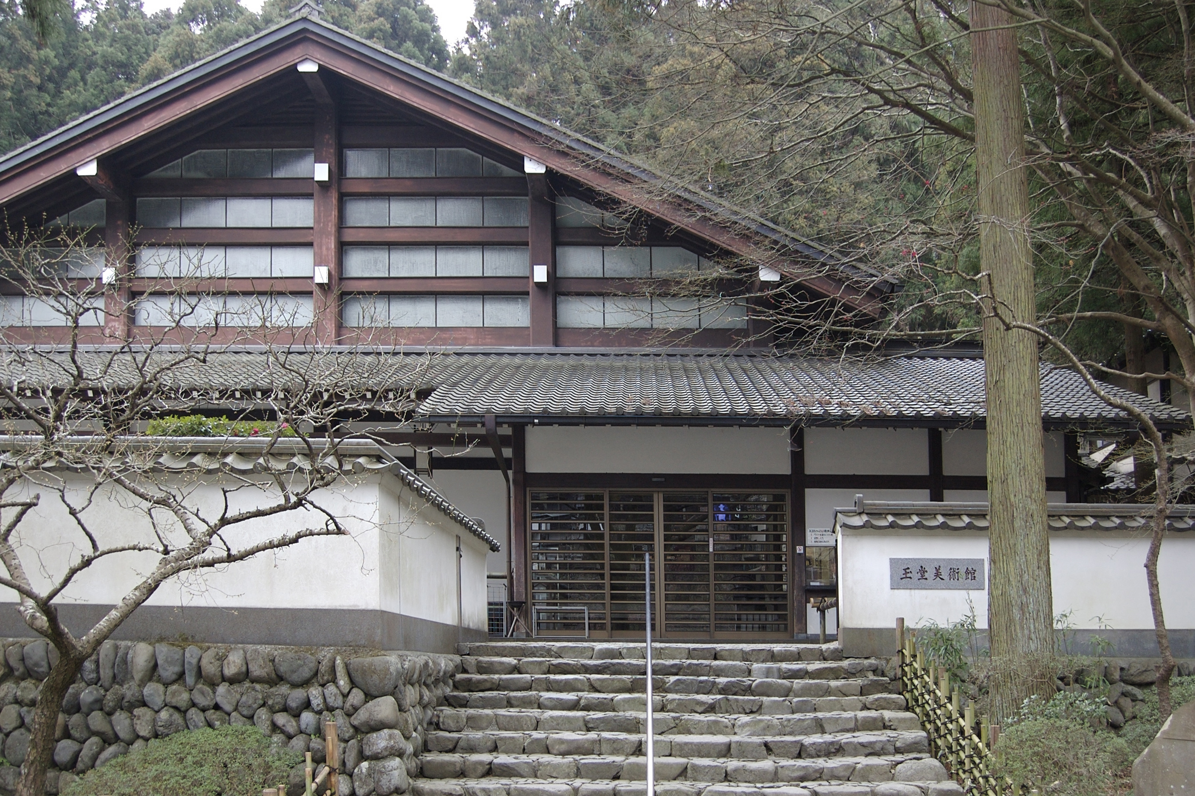 Gokudo Art Museum. At Ome, Tokyo, Japan. Architect by Isoya Yoshida in 1960.